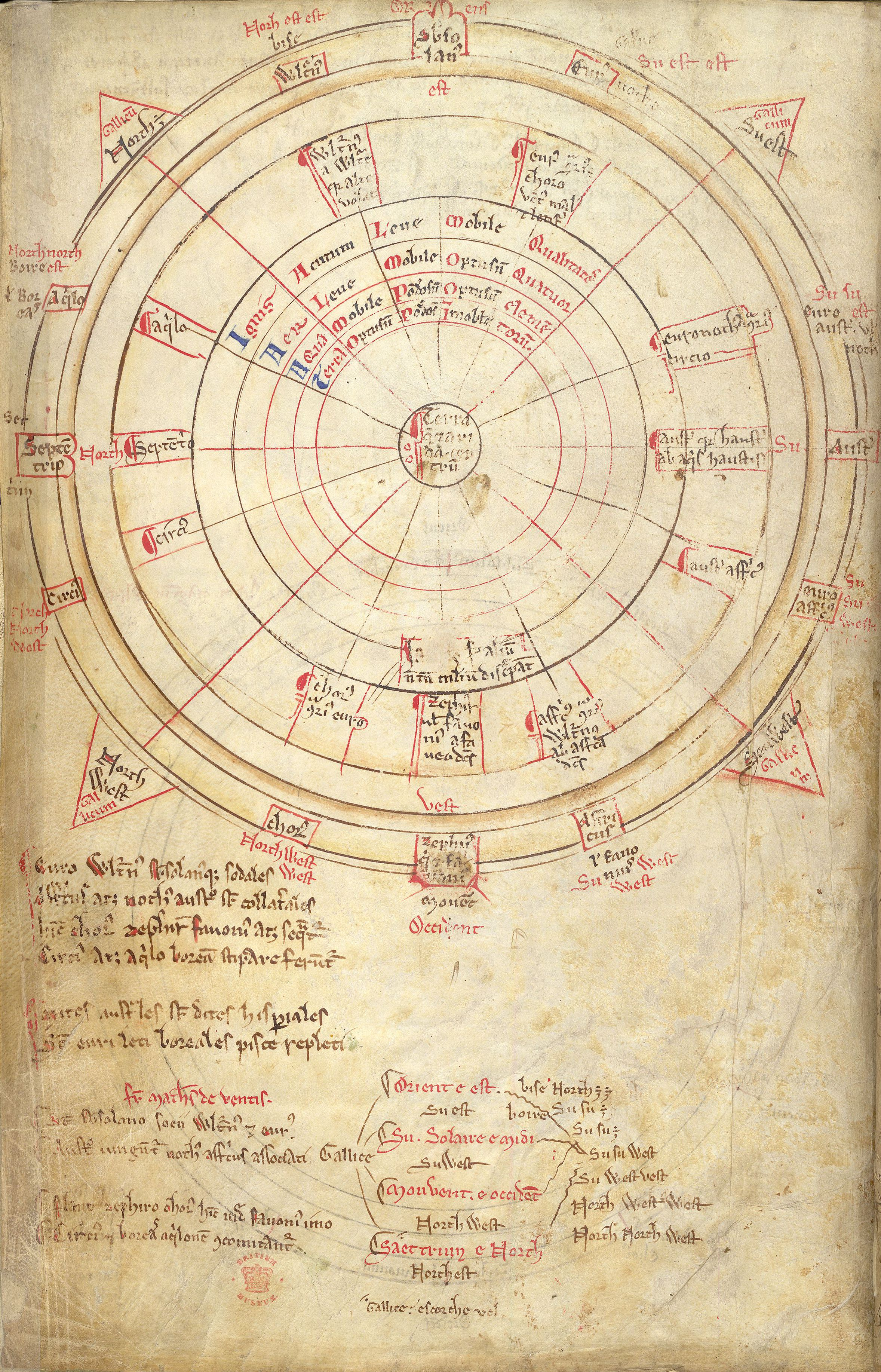 Sketch by Matthew Paris, attempting to fit the classical 12 winds on a 16-wind compass rose. From Liber Additamentorum, c.1250, notes preliminary to his main work. A Liber manuscript is held by the British Library, London, UK. [1]